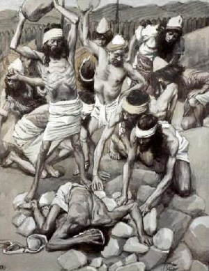 The Sabbath Breaker Stoned, by James Tissot